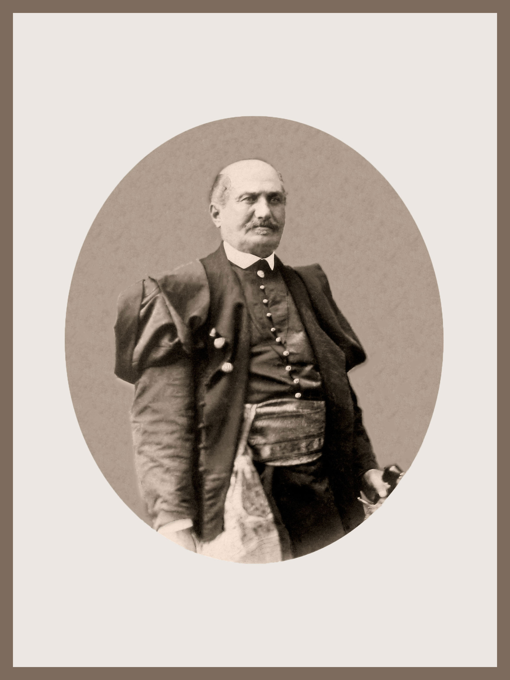 Teofil Wojciech Ostaszewski (1807-1889), photo by Carl von Jagemann k.k. Hof Fotograf, Stadt Naglergasse No 22 in Wien (ca 1870)